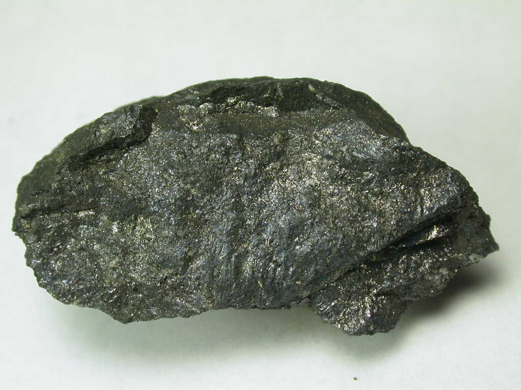 Stromeyerite Locality: Magma Mine (Magma Superior Mine; Irene claim; Hub claim; Pomeroy; Superior Division; Silver Queen; Monarch claim; Magma Copper Mine; Broken Hill; Apex), Superior, Pioneer District, Pinal Mts, Pinal County, Arizona, USA Original description: A 4.2 by 2.5 cms bluish grey mass.